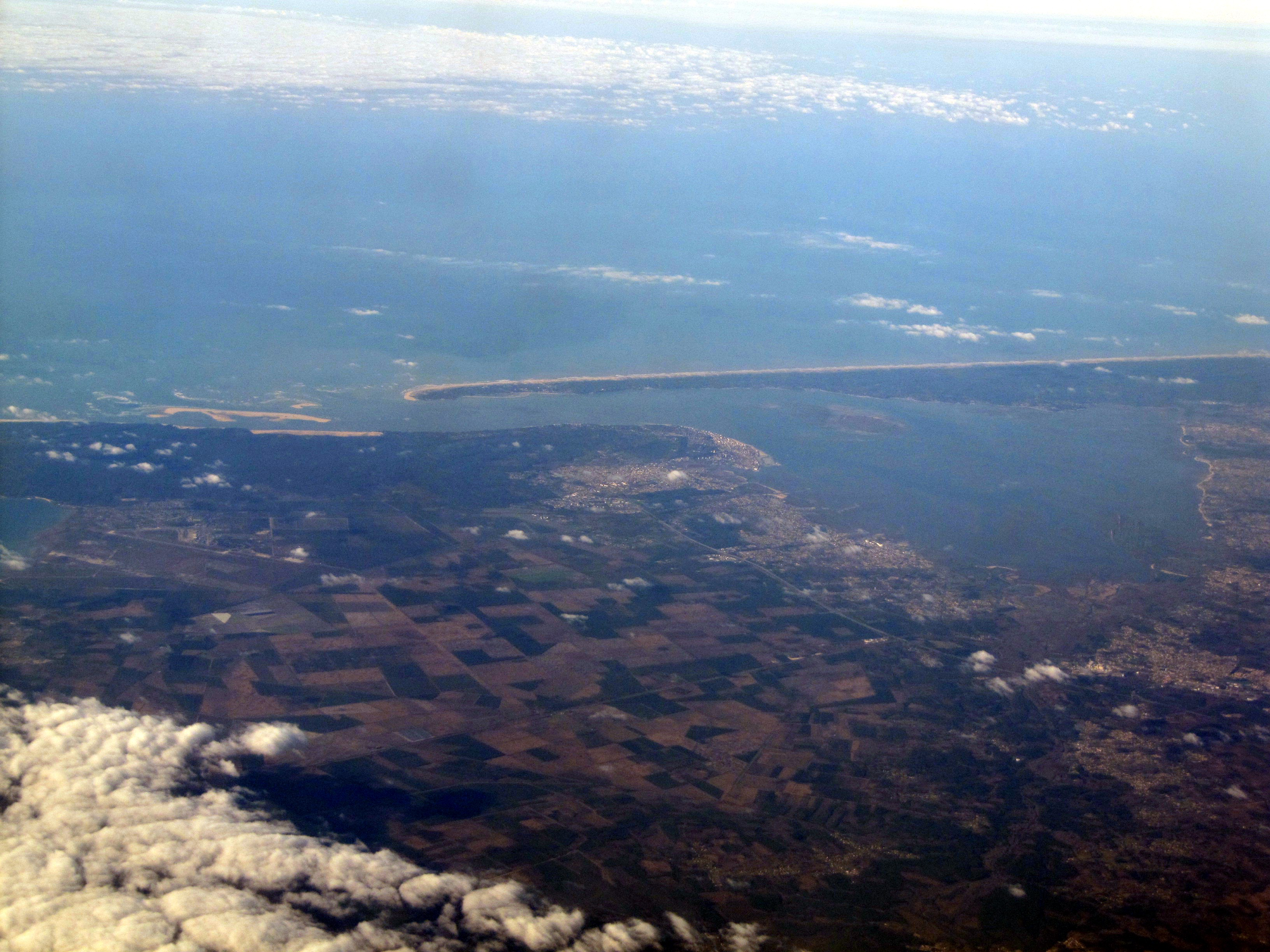 Aquitanië aerial view